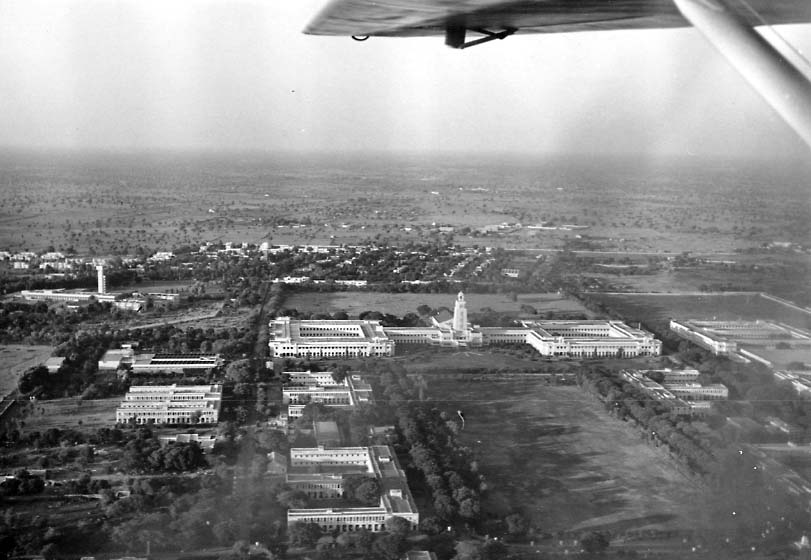 Author: Rahul Chettri Year: 1978 URL